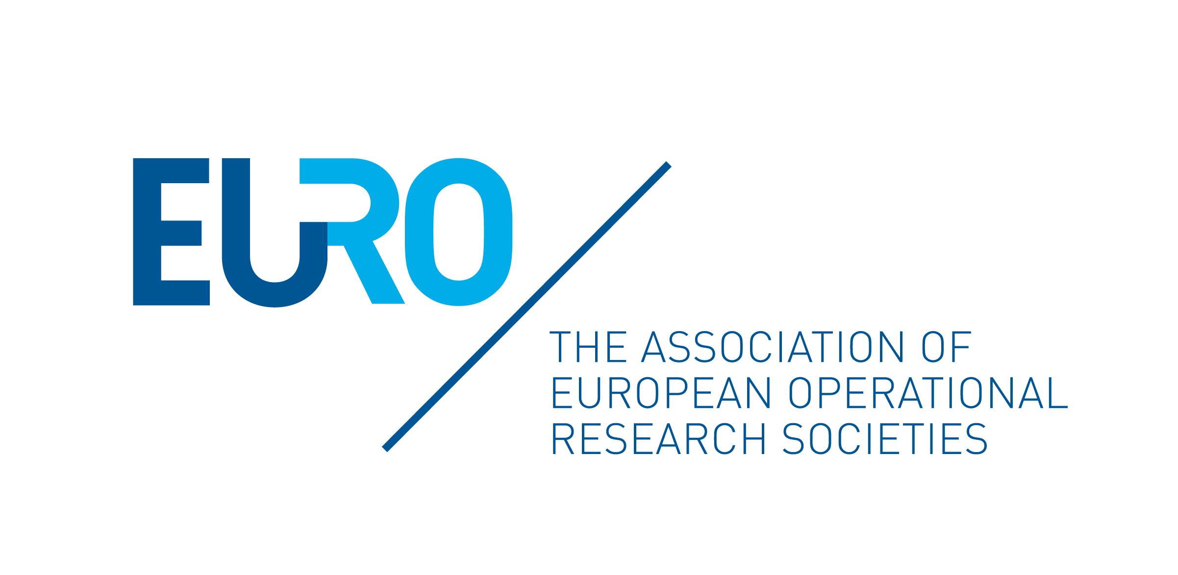 Logo of the Association of European Operational Research Societies (EURO)